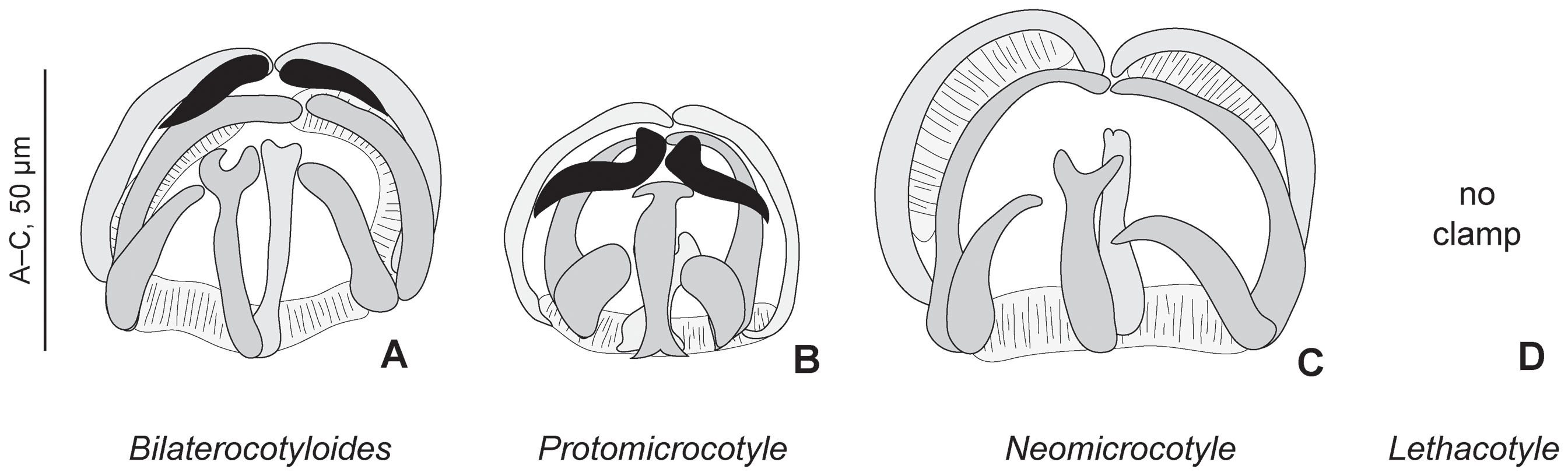 Clamps in various genera of Protomicrocotylidae (Monogenea) Legend in published paper: Figure 3. Clamps in various genera of Protomicrocotylidae. Examples of clamps in various genera of Protomicrocotylidae. A, Bilaterocotyloides novaeguineae (Rohde, 1977) Lebedev, 1986 (USNPC 74800). B, Protomicrocotyle sp. (MNHN JNC1163A5). C, Neomicrocotyle sp. (MNHN JNC3242A4). Black: additional sclerite, characteristic of the “gastrocotylid” clamp. Bilaterocotyloides and Protomicrocotyle have clamps of the “gastrocotylid” type, Neomicrocotyle has clamps of the “microcotylid” type, and Lethacotyle has no clamp.